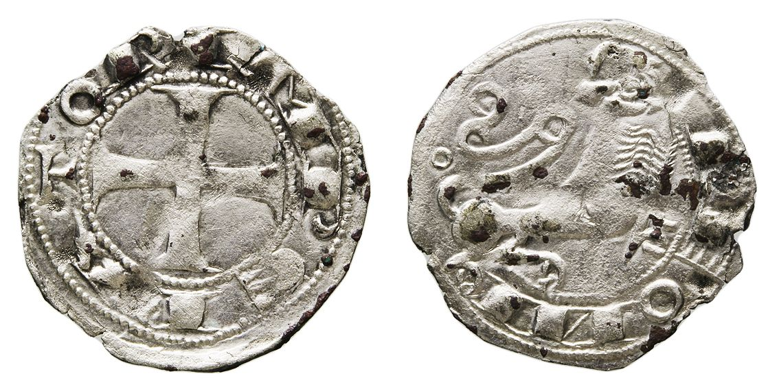 Leonese obol, silver-rich billon coin minted in the city of León during the reign of Alfonso VII of León and Castile (1126-1157). Legends: obverse "IMPERATOR", reverse "LEONI"; i.e. "Emperor of León".